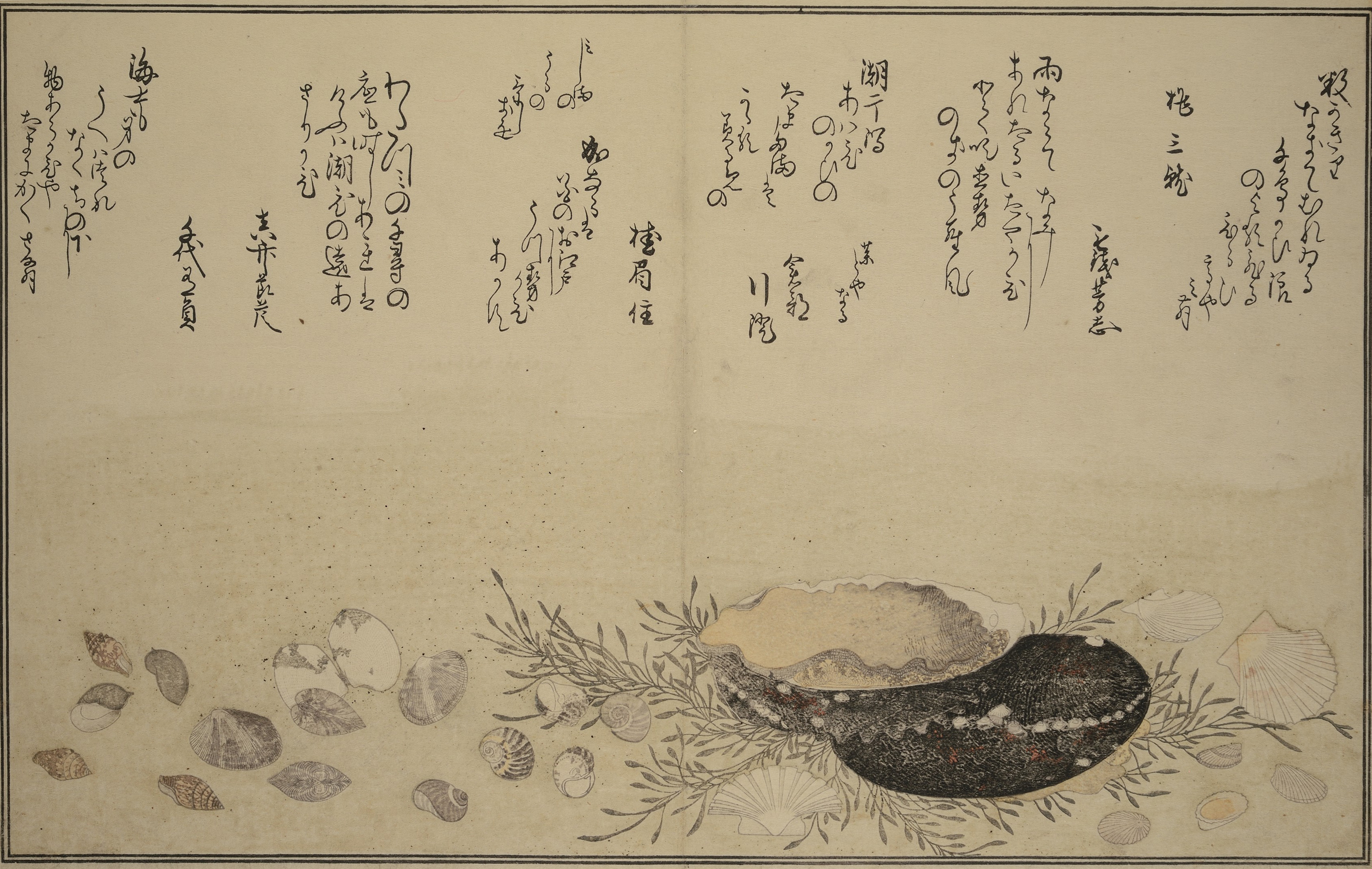 Two abalones,Manila clam,Codium fragile